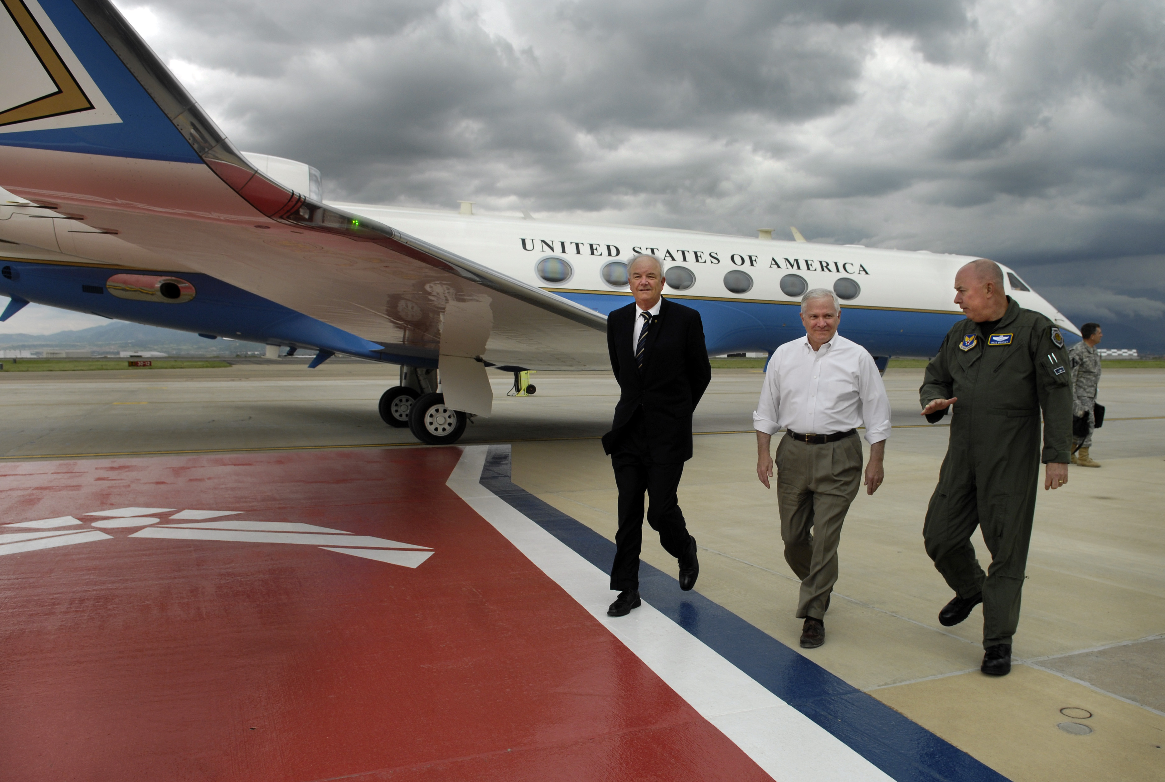 Secretary of the Air Force Michael W. Wynne, left, and Chief of Staff of the U.S. Air Force Gen. T. Michael Moseley, right, walk with Secretary of Defense Robert M. Gates upon his arrival at Peterson Air Force Base, Colo., May 29, 2007. Gates is in Colorado Springs to deliver the commencement speech for the U.S. Air Force Academy graduation, May 30, 2007. Defense Dept. photo by Cherie A. Thurlby